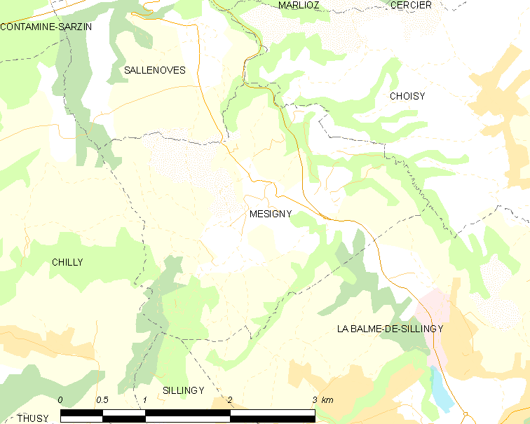 Map of French municipality Mésigny